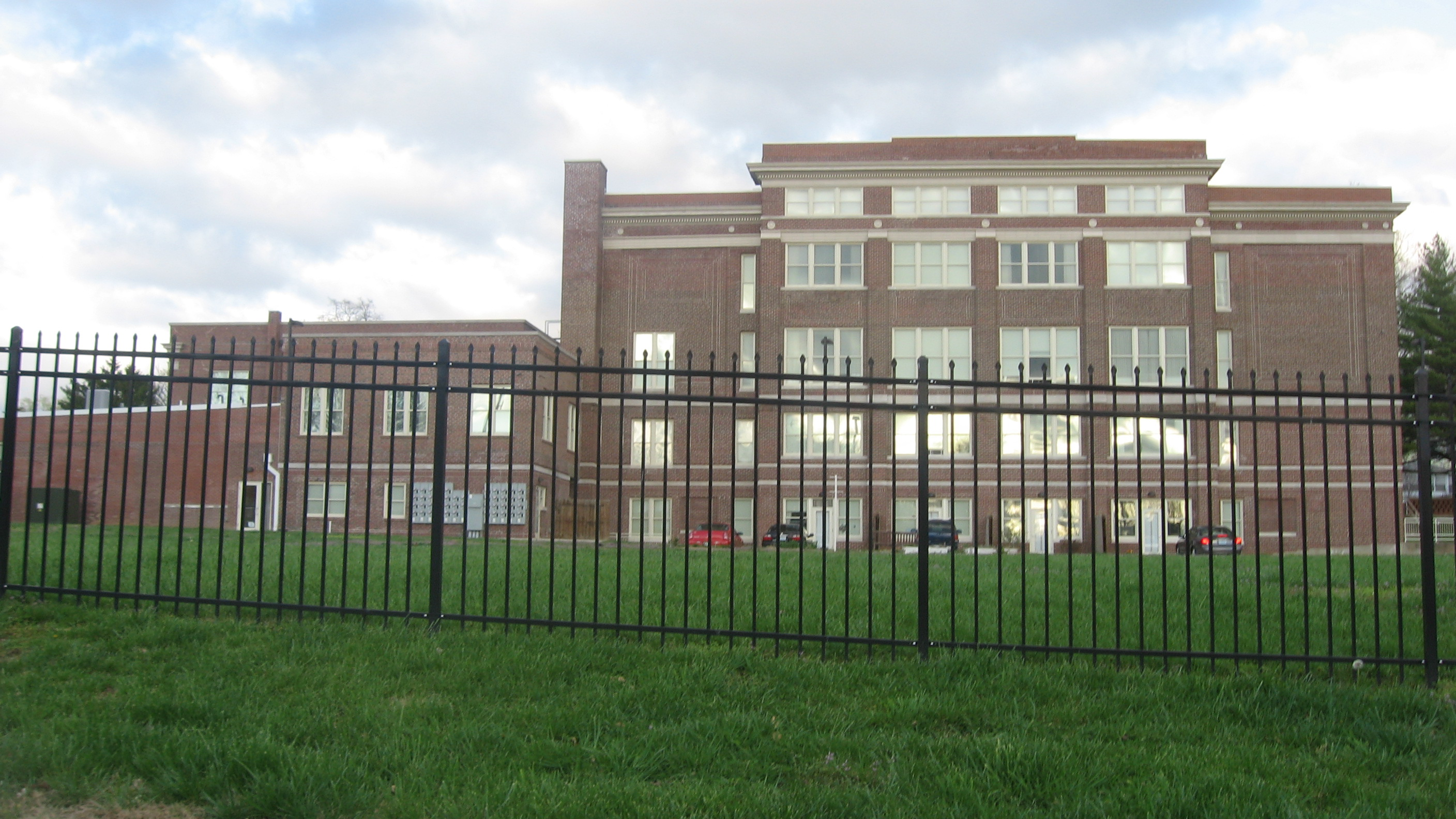 Rear of the old Central High School (now known as Louis J. Schultz School), located at 101 S. Pacific Street in Cape Girardeau, Missouri, United States. Built in 1915, it is listed on the National Register of Historic Places.